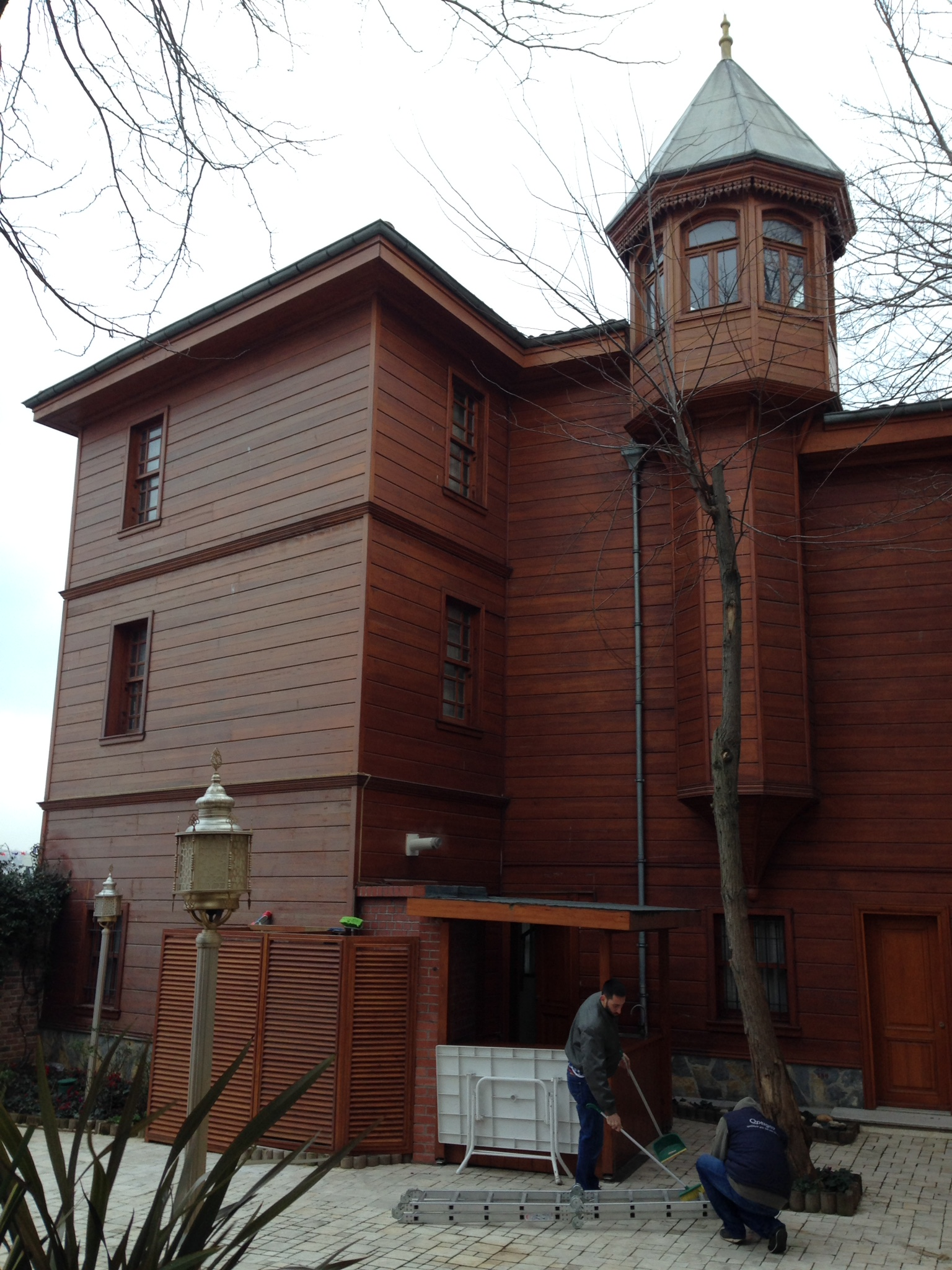 Restored exterior of the Balaban Tekke at Uskudar, Istanbul